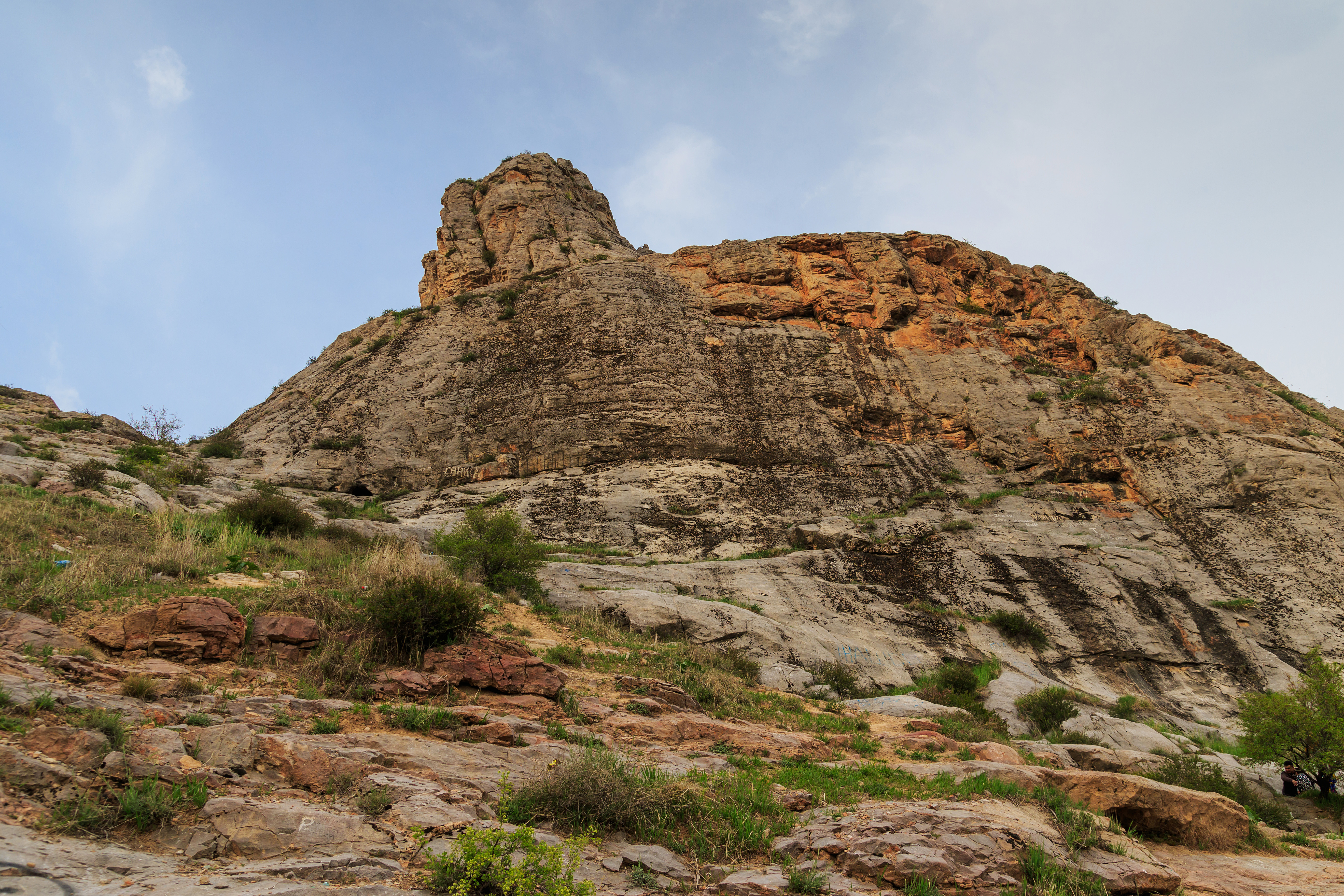 Rocks at the top of Sulayman Mountain in Osh, Kyrgyzstan